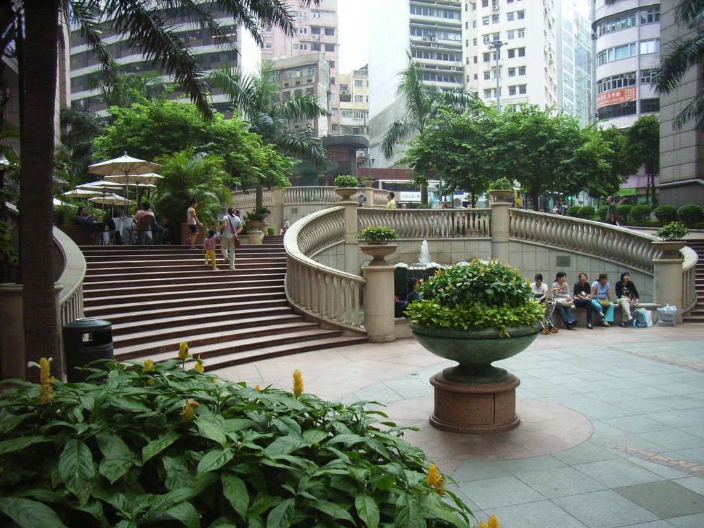 COSCO Tower, Sheung Wan, Hong Kong.